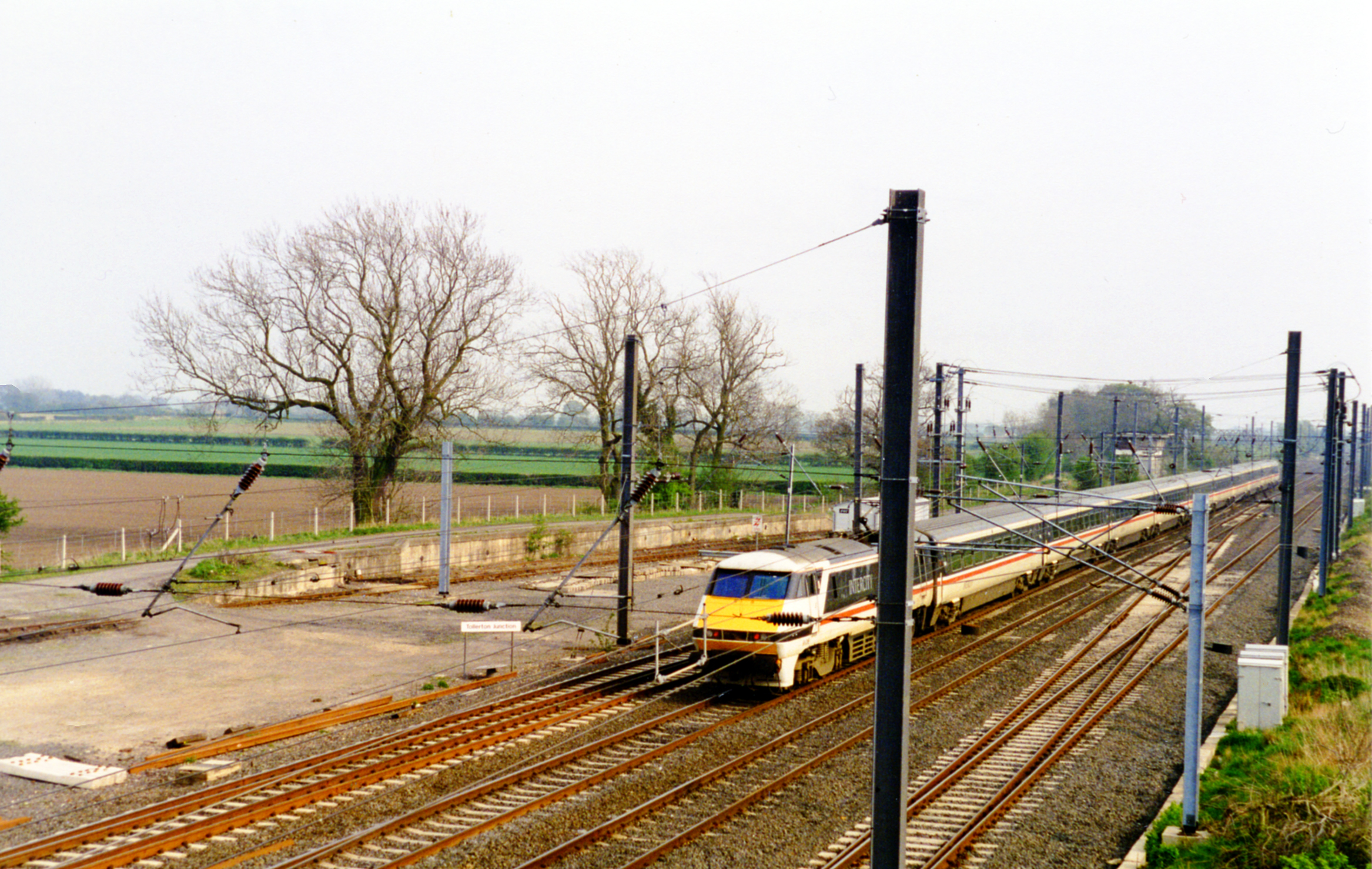 Site of former Tollerton station, ECML 1995. View southward, towards York and London: ex-NER York - Northallerton stretch of the East Coast Main Line, electrified 1990. Nothing is left of the station, which was modern, having been rebuilt during the 1930s widening to four-tracks, and closed from 1/11/65. The IC225 express is receding southward.